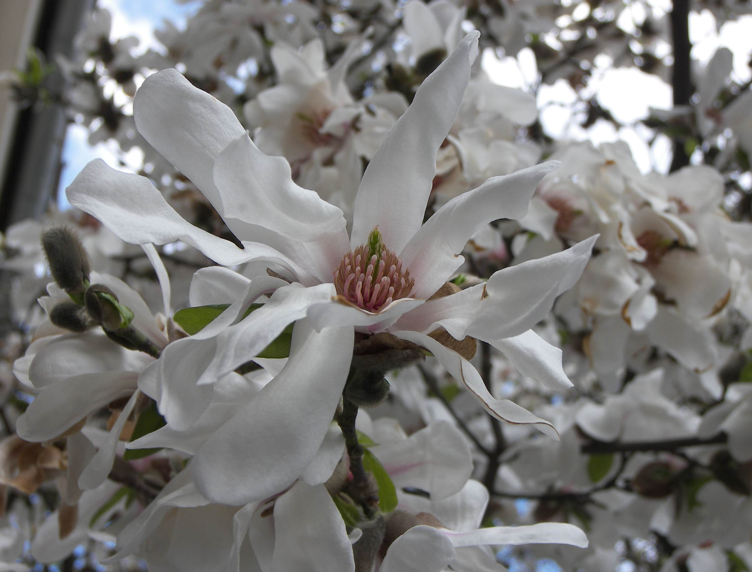 Magnolia stellata, šácholan, city Brno Komín, street Branka, 2008